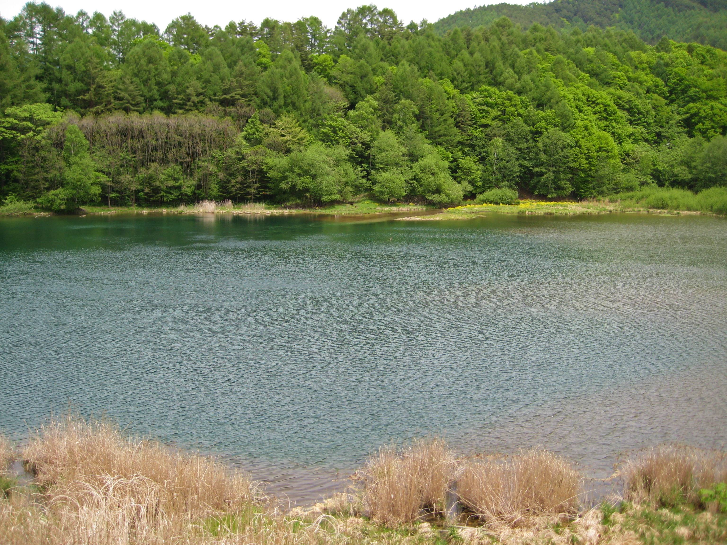 Lake Azusako.